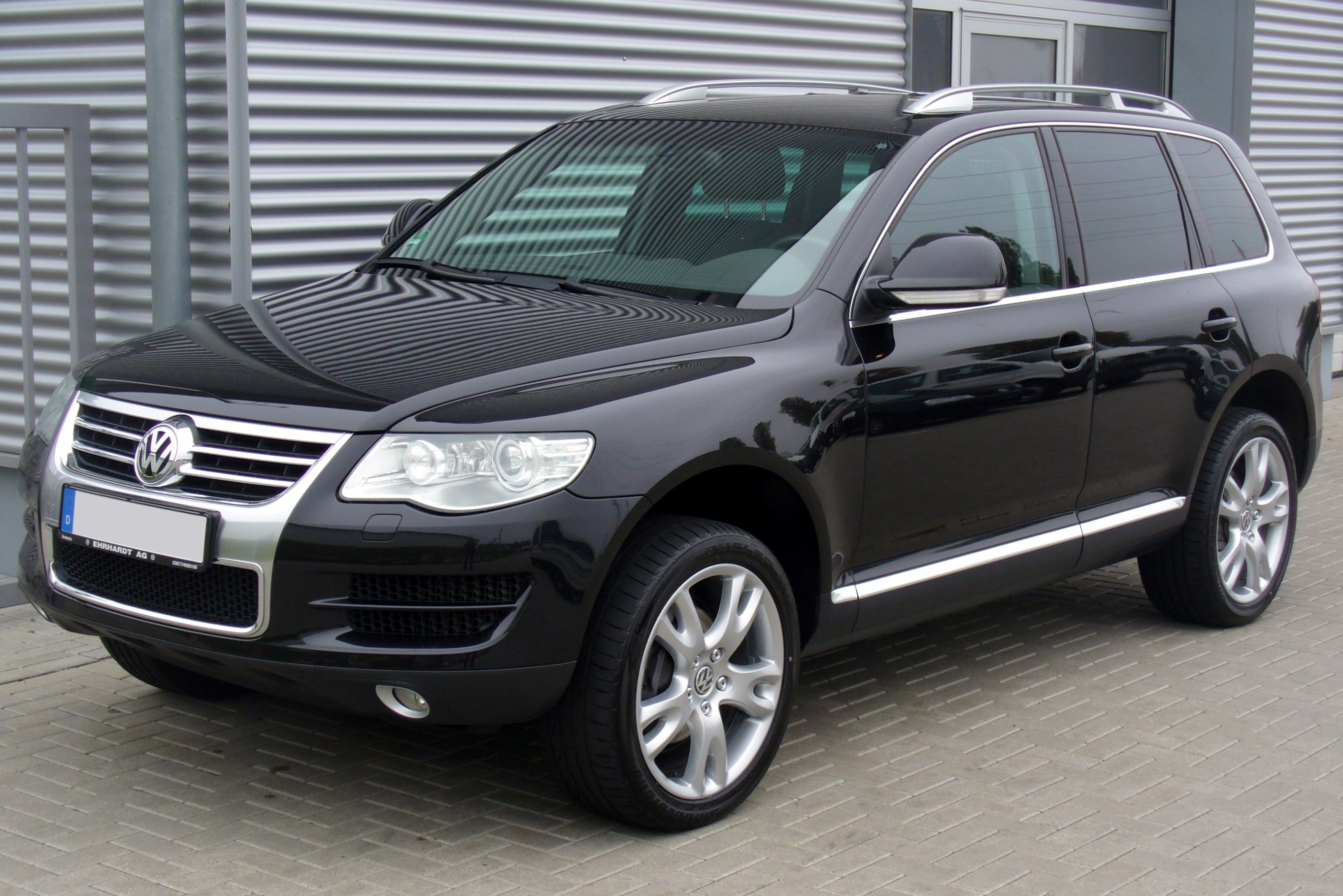 VW Touareg I